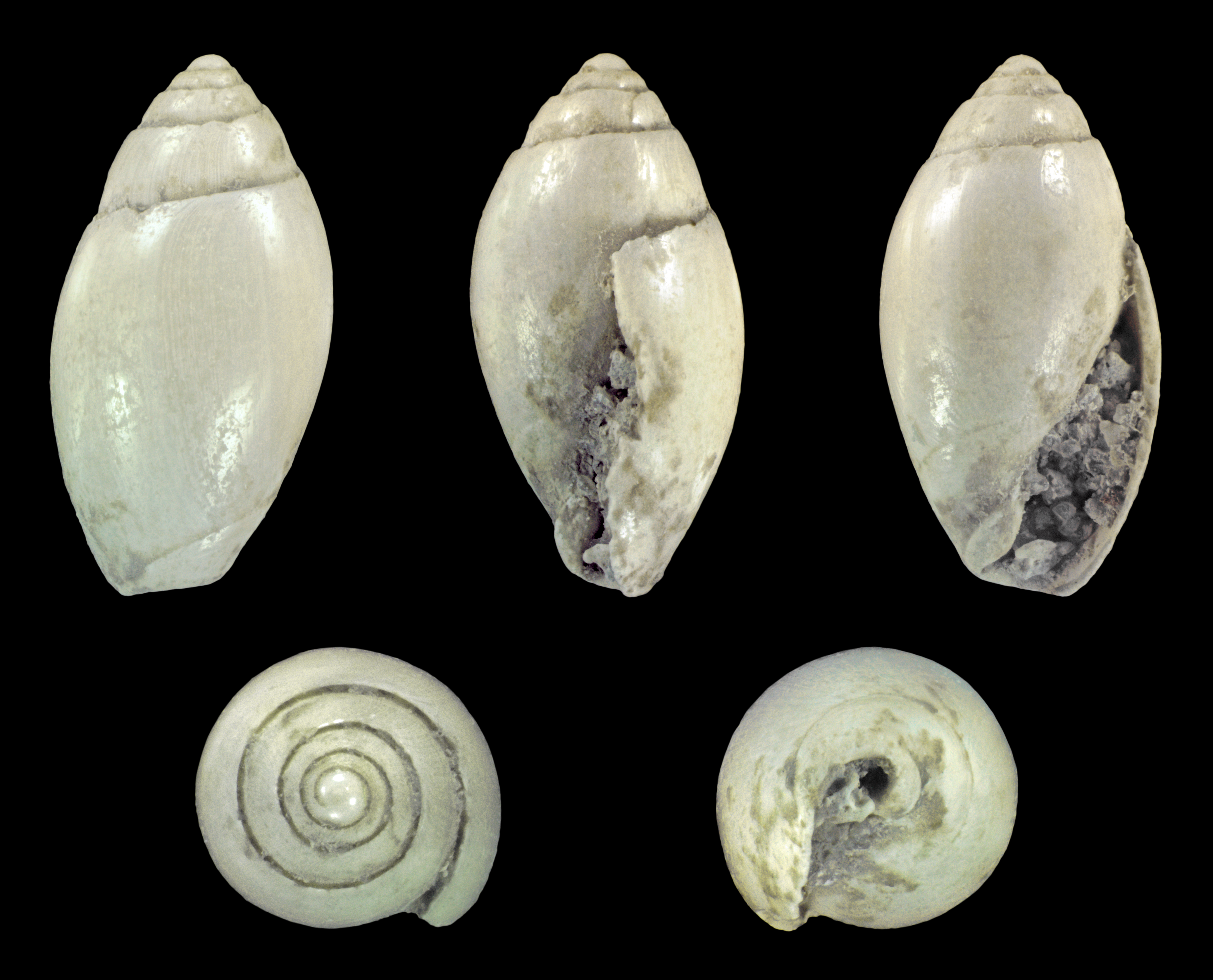 Olivella pusilla (Marrat, 1871), Tiny Dwarf Olive; length 0.56 cm; Tertiary, Pliocene, LaBelle, Florida, USA; Shell of own collection, therefore not geocoded.